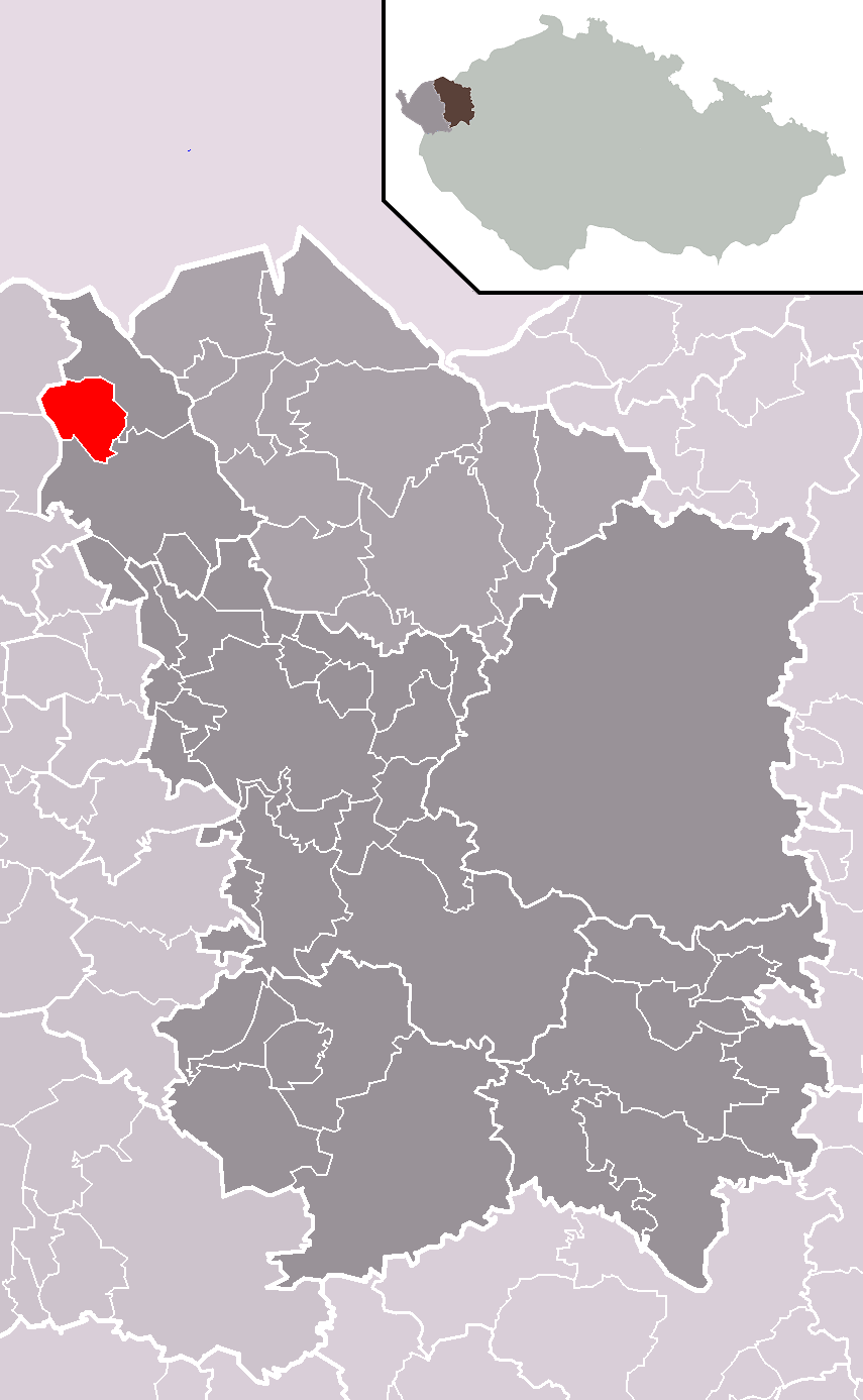 Location of Vysoká Pec municipality within Karlovy Vary District and administrative area of Karlovy Vary as a Municipality with Extended Competence.